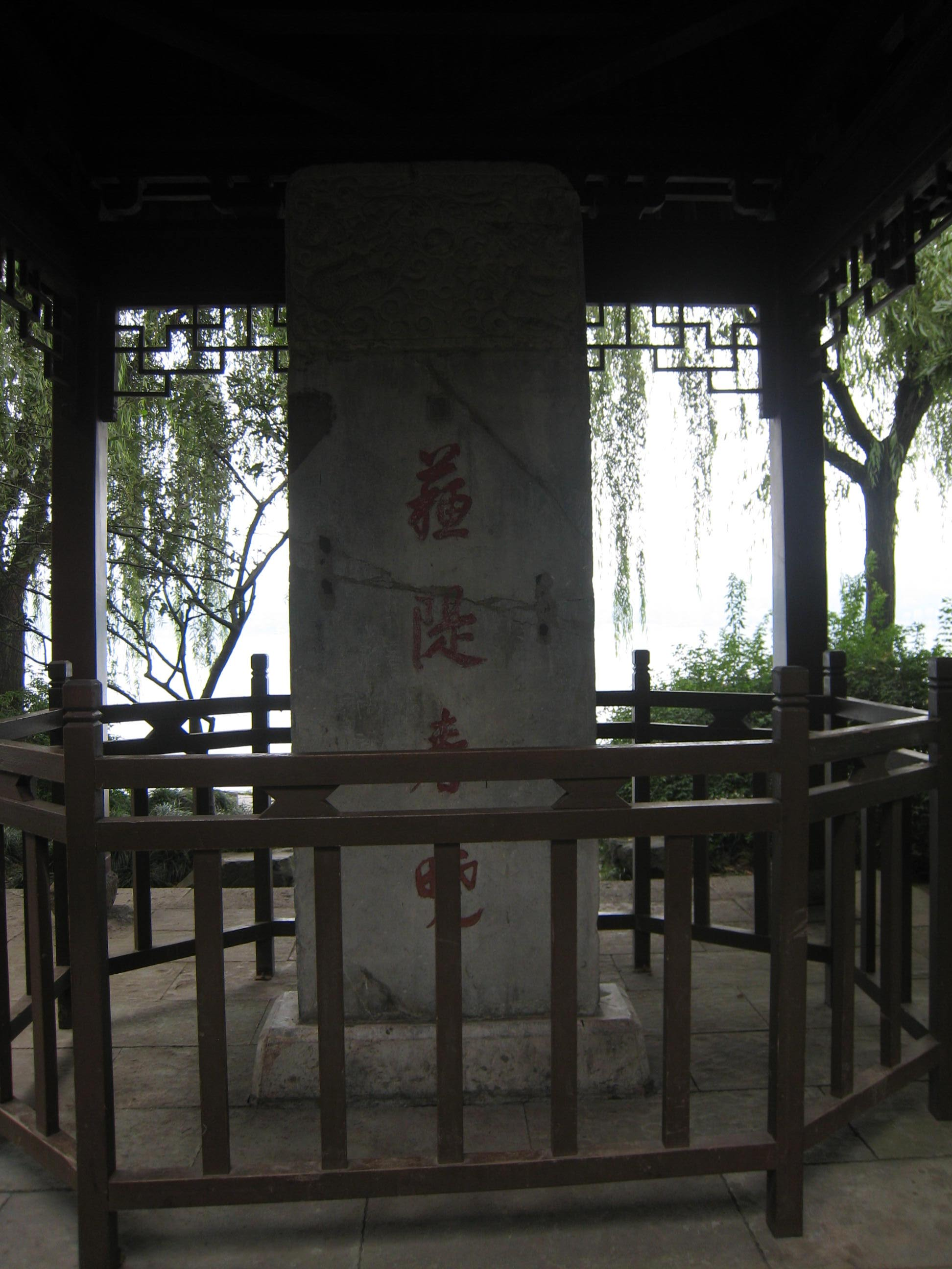 Sudi Spring 中文（台灣）: 蘇隄春曉